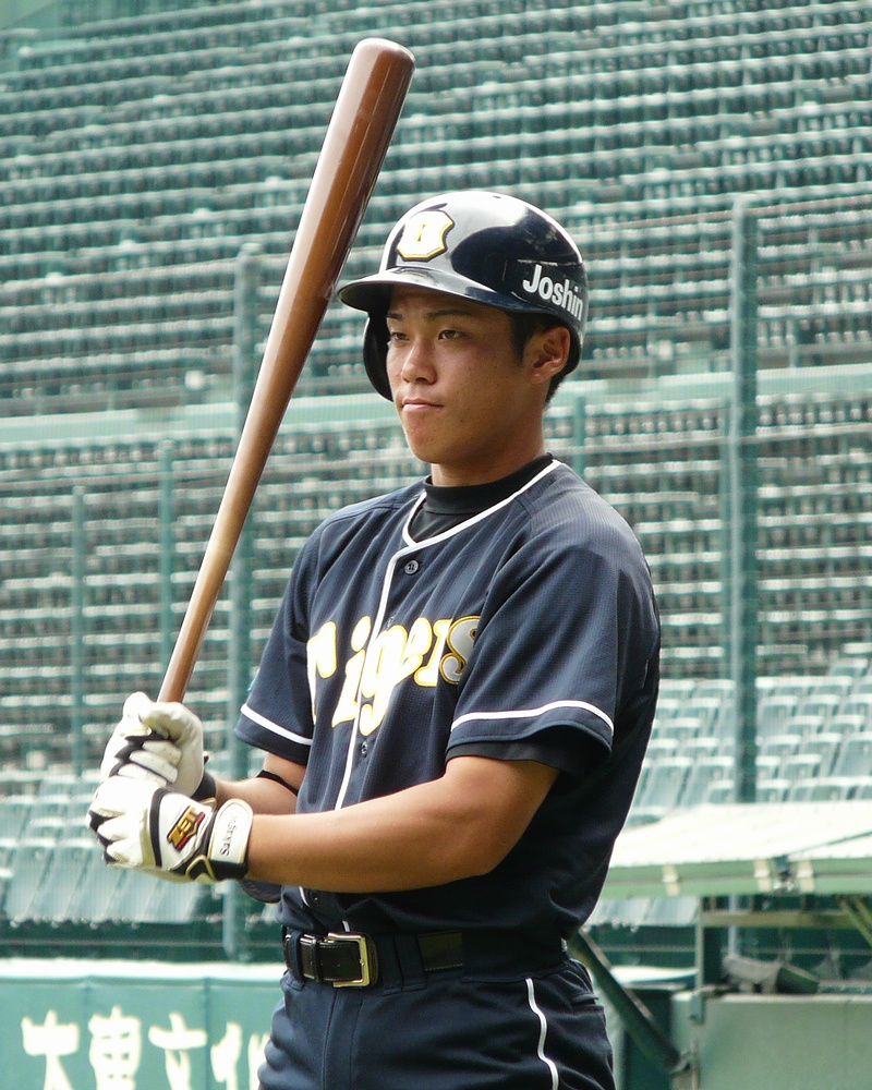 HT-Tetsuya-Sakaguchi20110609